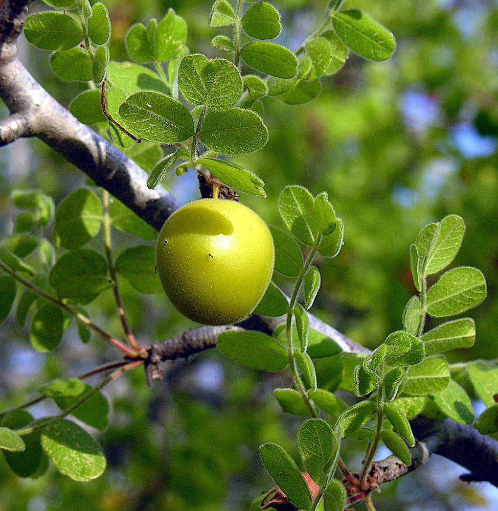 Found mainly in Baja California and Sonora State, where it is known a Ciruelo Cimarron. Although referred to as a plum in both languages, it is of the Anacardiaceae Family. Despite the "edulis" name, it seems used more for medicine than food. Photo from Sierra Laguna in southern Baja.